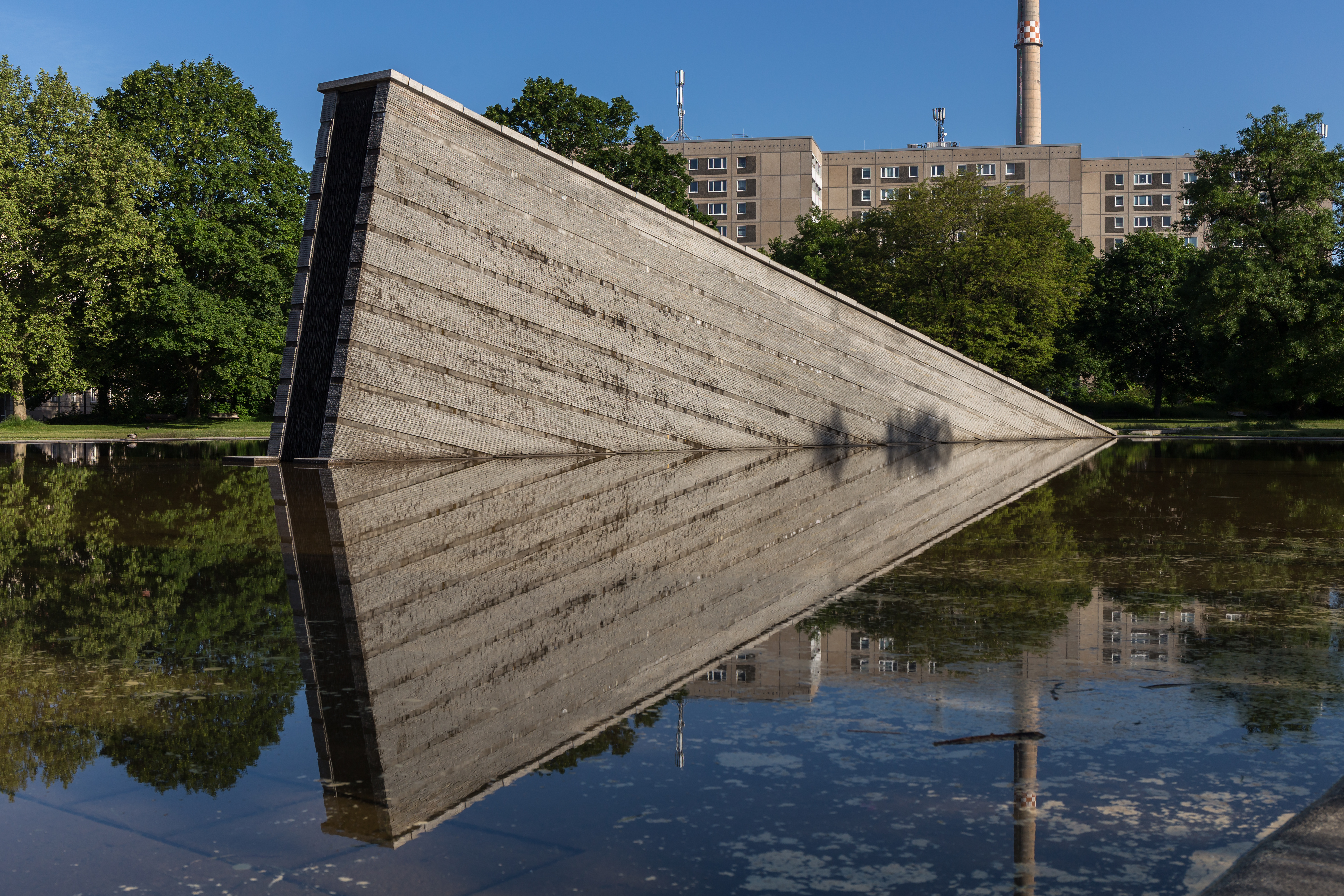 The so called "sunken wall", a fountain in the Invalidenpark in Berlin-Mitte. It is also called "Mauerbrunnen" ("wall fountain") or "Invalidenbrunnen" and was designed by Christoph Girot. It was built in 1997.